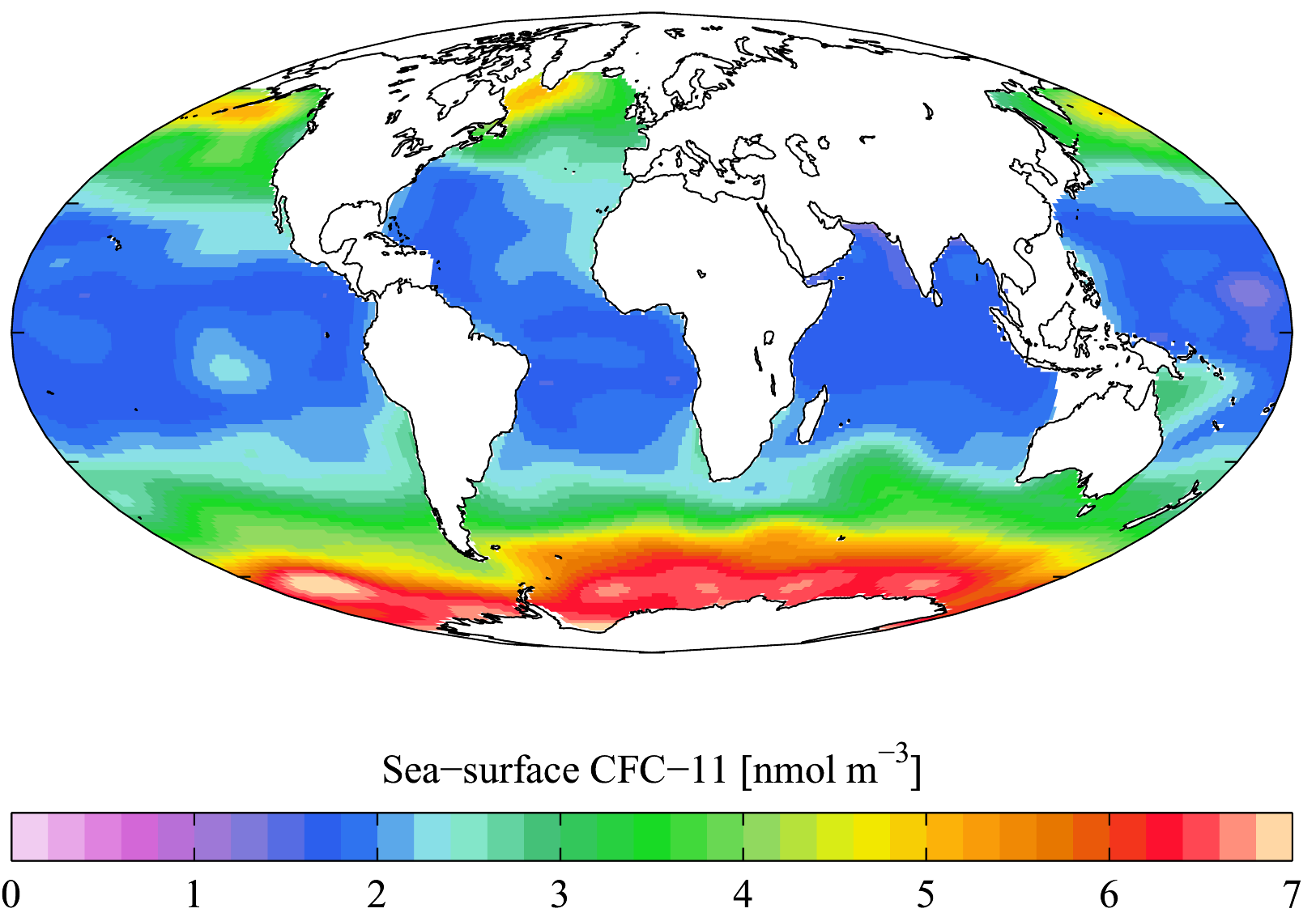 Annual mean sea surface CFC-11 concentration for the present day (1990s) from the Global Ocean Data Analysis Project climatology. CFC-11 here is in nmol m-3 of seawater. Original mass units (kg-1) converted to volume units (m-3) using the SEAWATER toolbox to calculate density from World Ocean Atlas 2005 fields of temperature and salinity. It is plotted here using a Mollweide projection (using MATLAB and the M_Map package). Note that the GLODAP climatology is missing data in certain oceanic provinces including the Arctic Ocean, the Caribbean Sea, the Mediterranean Sea and the Malay Archipelago.